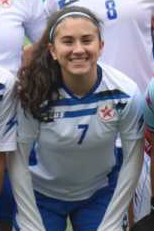 Hanin Tamim at SAS, against BFA (2019-20)